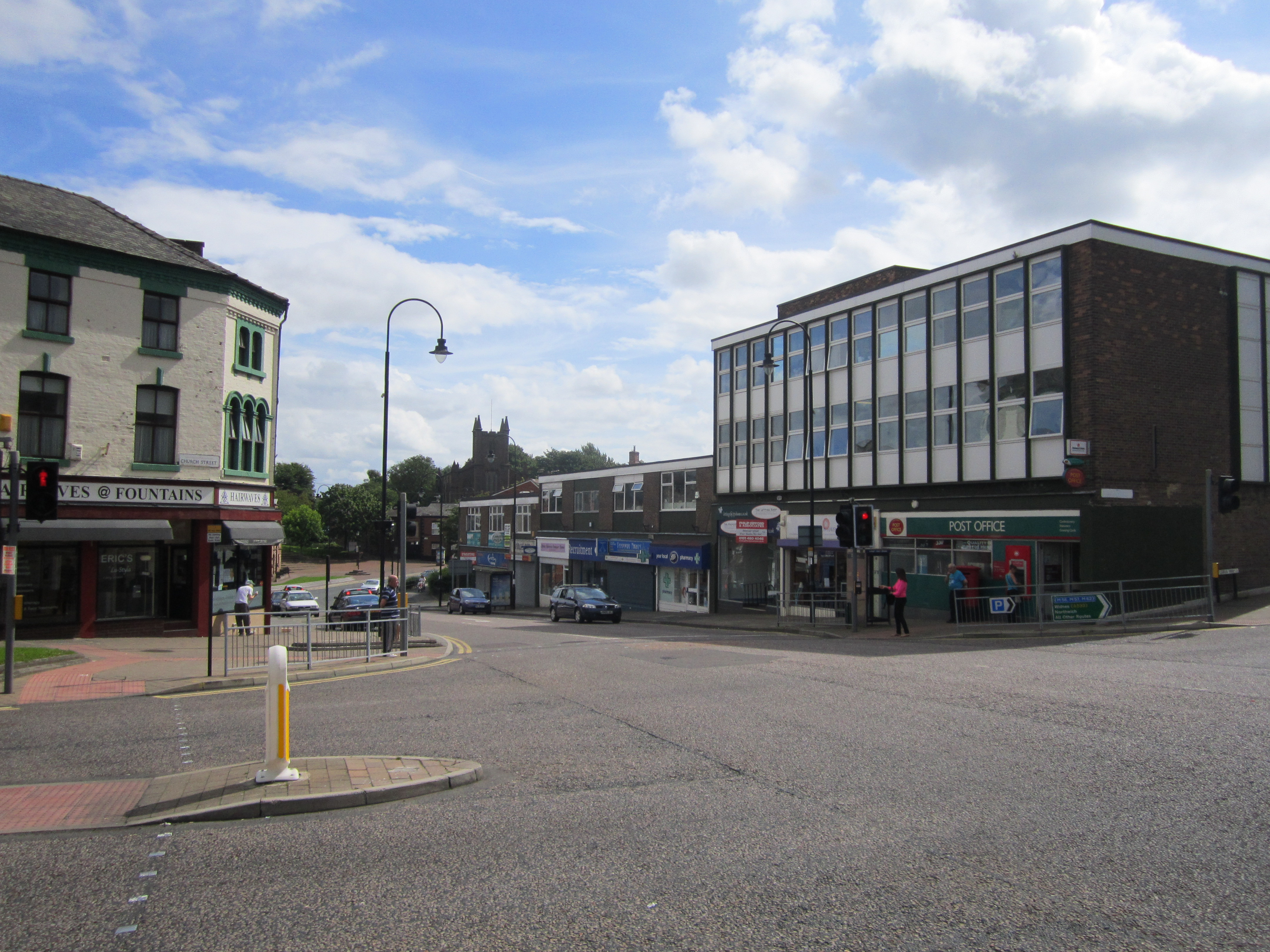 Photo taken at Runcorn Old Town, Cheshire, England.